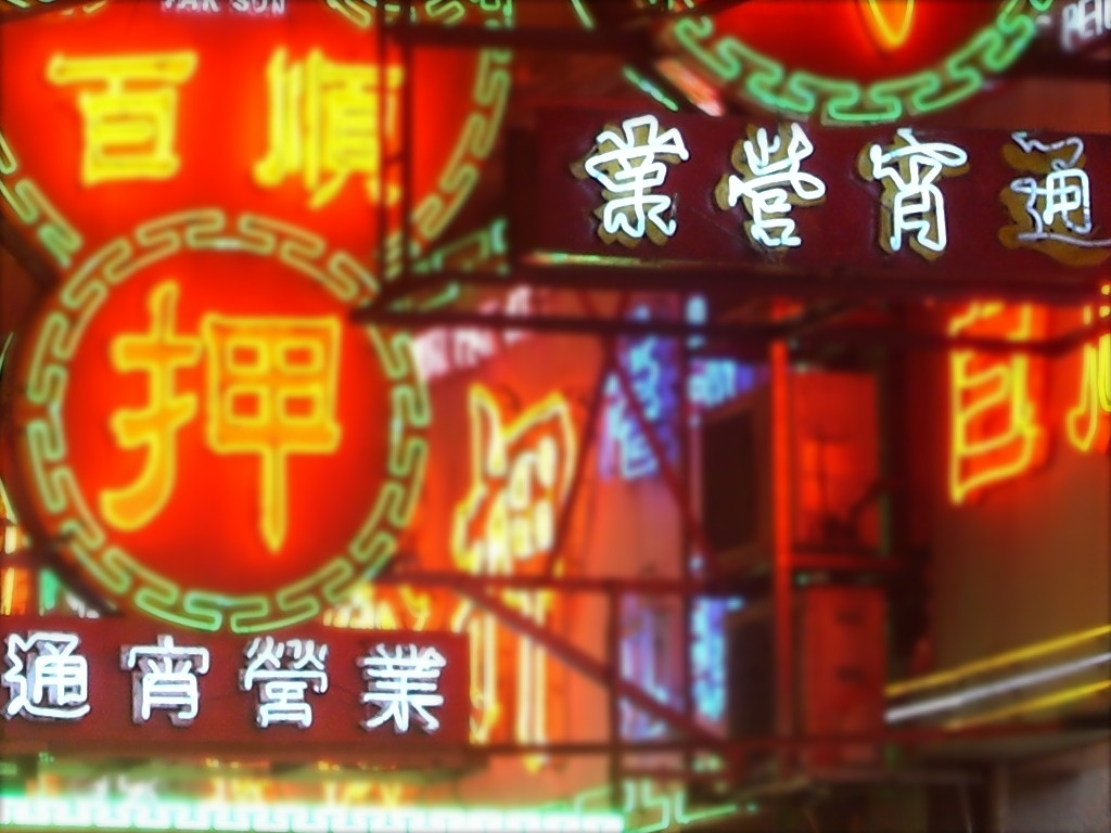 Neon billboard of Pawnshops in Macau